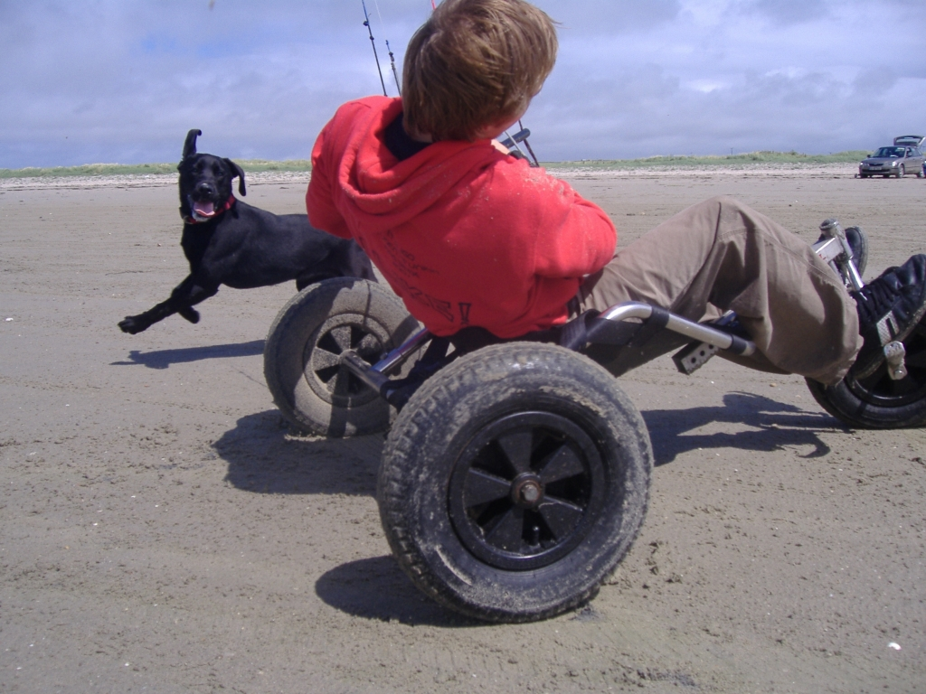 Great craic on the empty beaches of Erris, County Mayo.